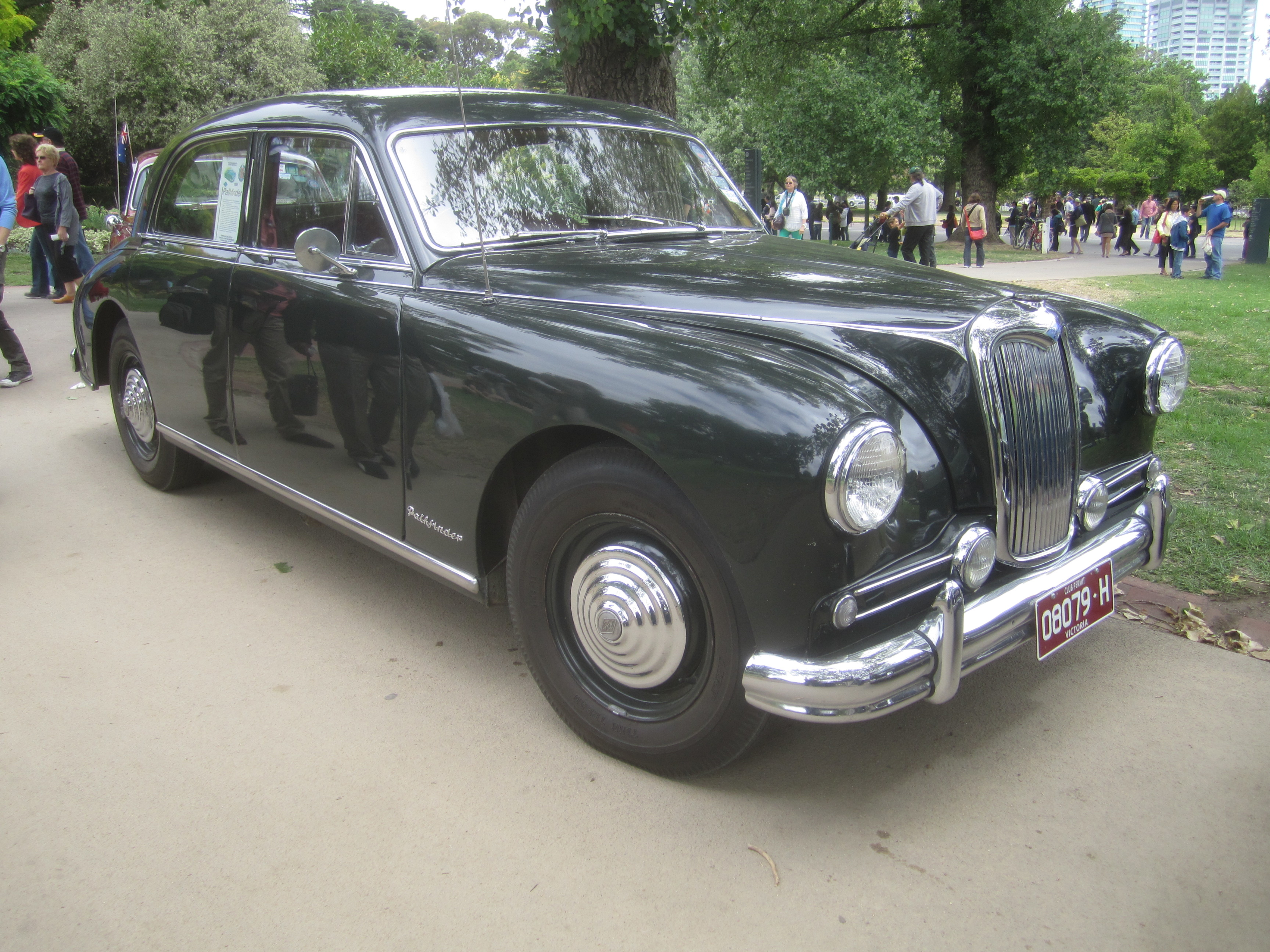 The top of the line Pathfinder replaced the RMF and was built from 1953-57, the body was similar in appearance to the Wolseley 6/90, although there were detail differences such as the Riley's opening bonnet including the radiator grille, whereas the Wolseley's grille was fixed. The gear lever was floor mounted by the driver's door . The car was available in black, maroon, green, blue or grey. Engine; 2443cc twin cam 4 cyl with twin SU carbs Replaced by the Riley 2.6